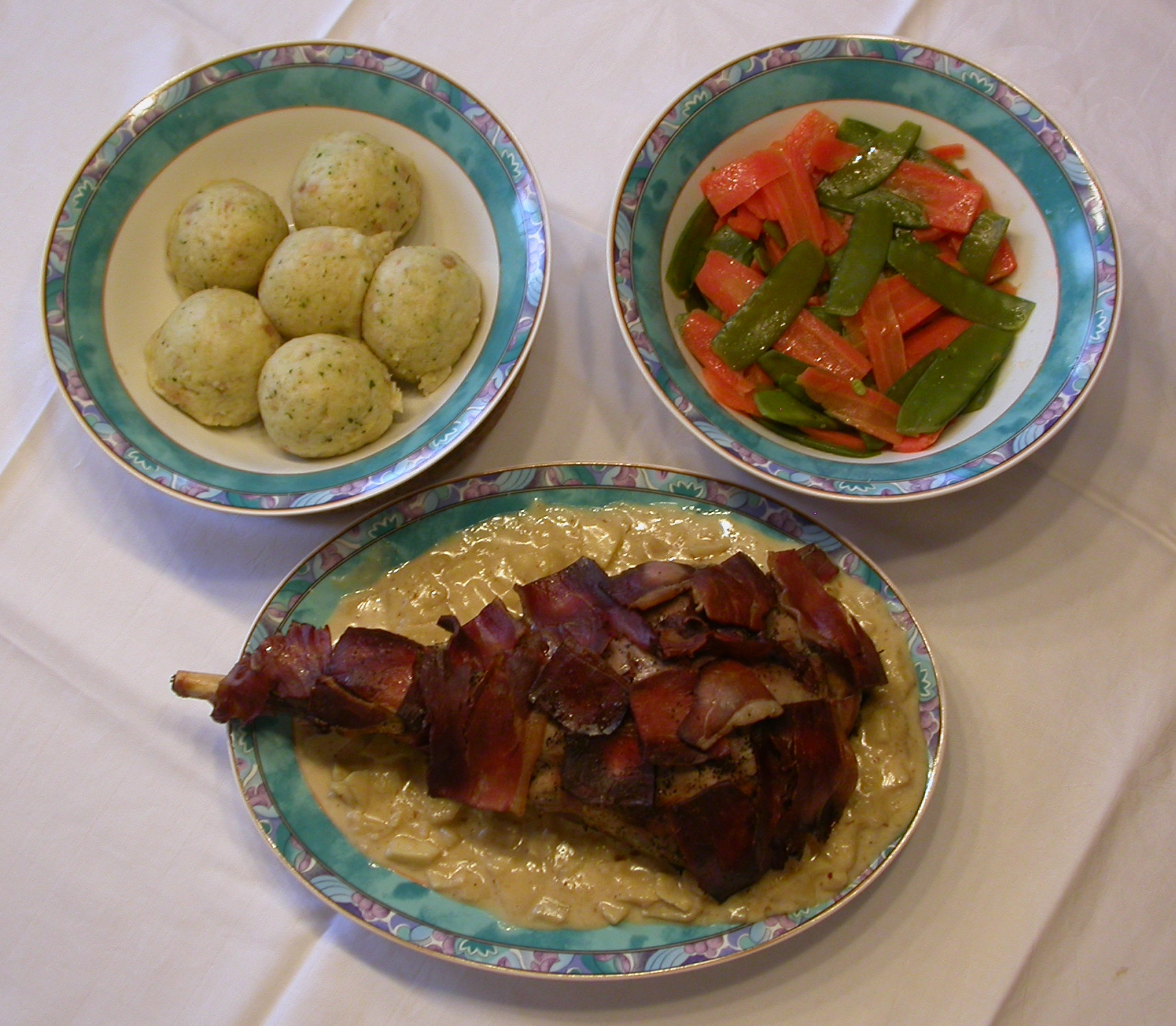 venison leg with bacon on applesauce with dumbling and vegetable